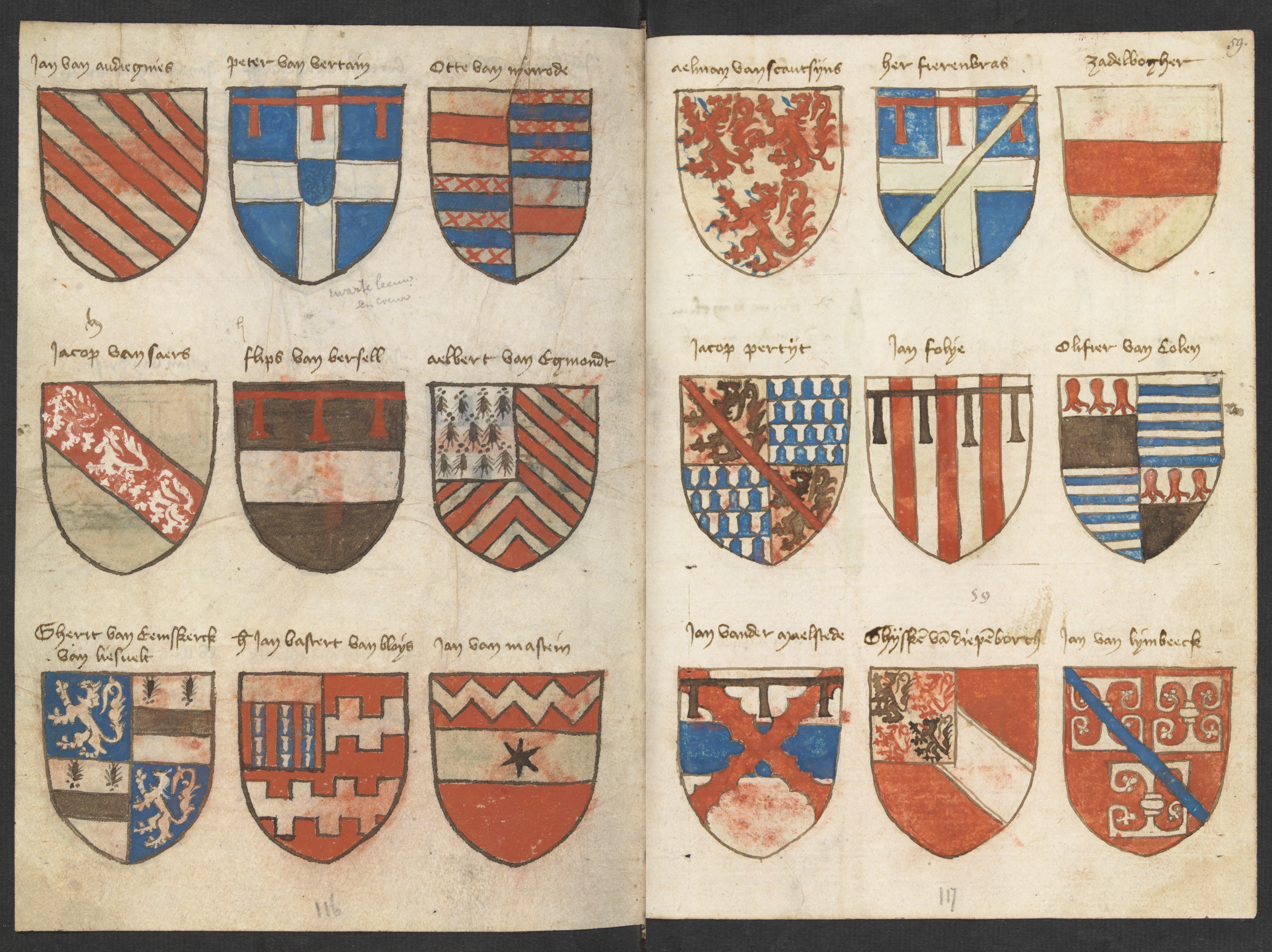 Lefthand side folio 058v; righthand side folio 059r from the Beyeren armorial / Wapenboek Beyeren